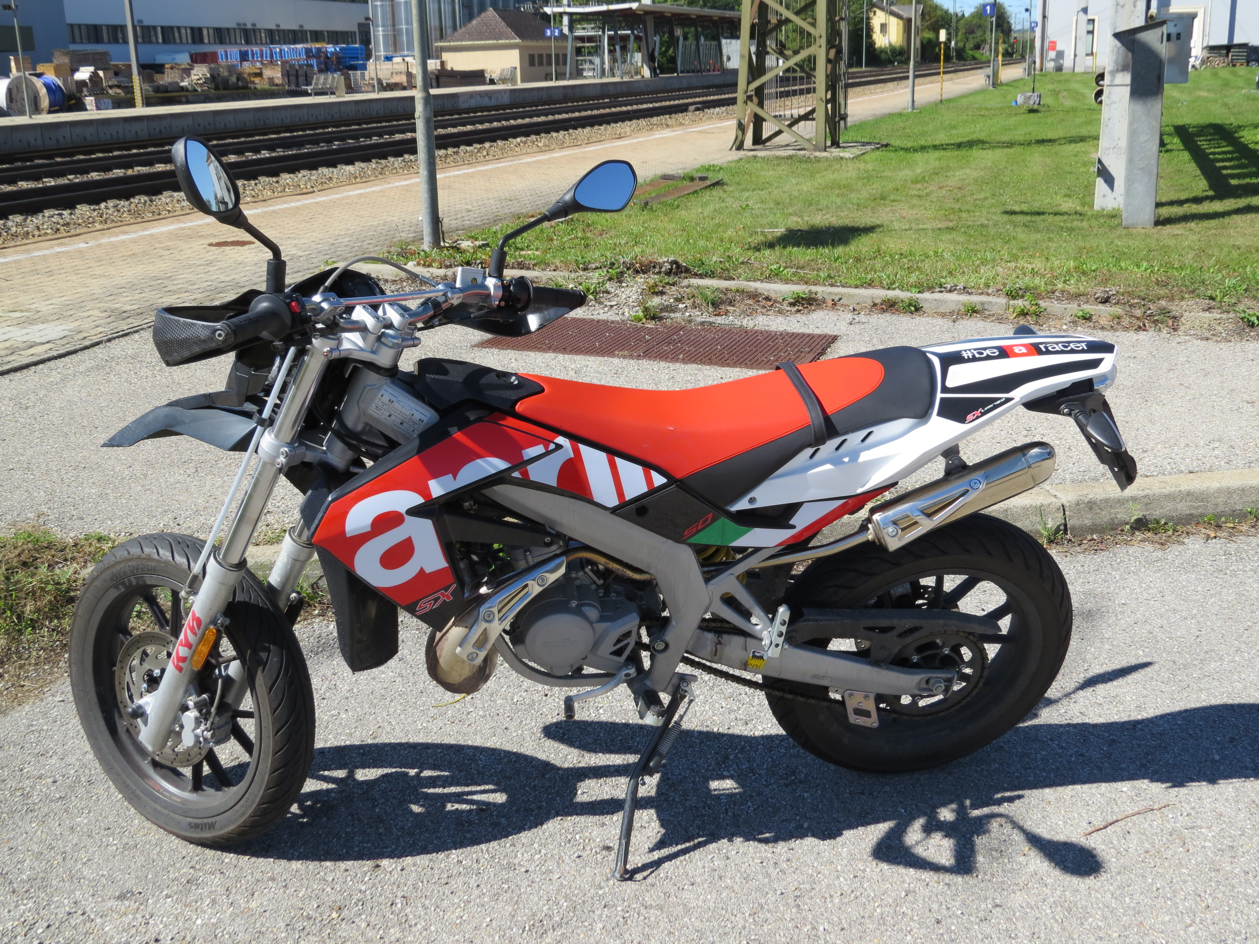 Aprilia SX 50 at Bahnhof Neulengbach, Austria